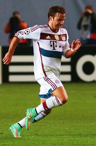 Mario Götze